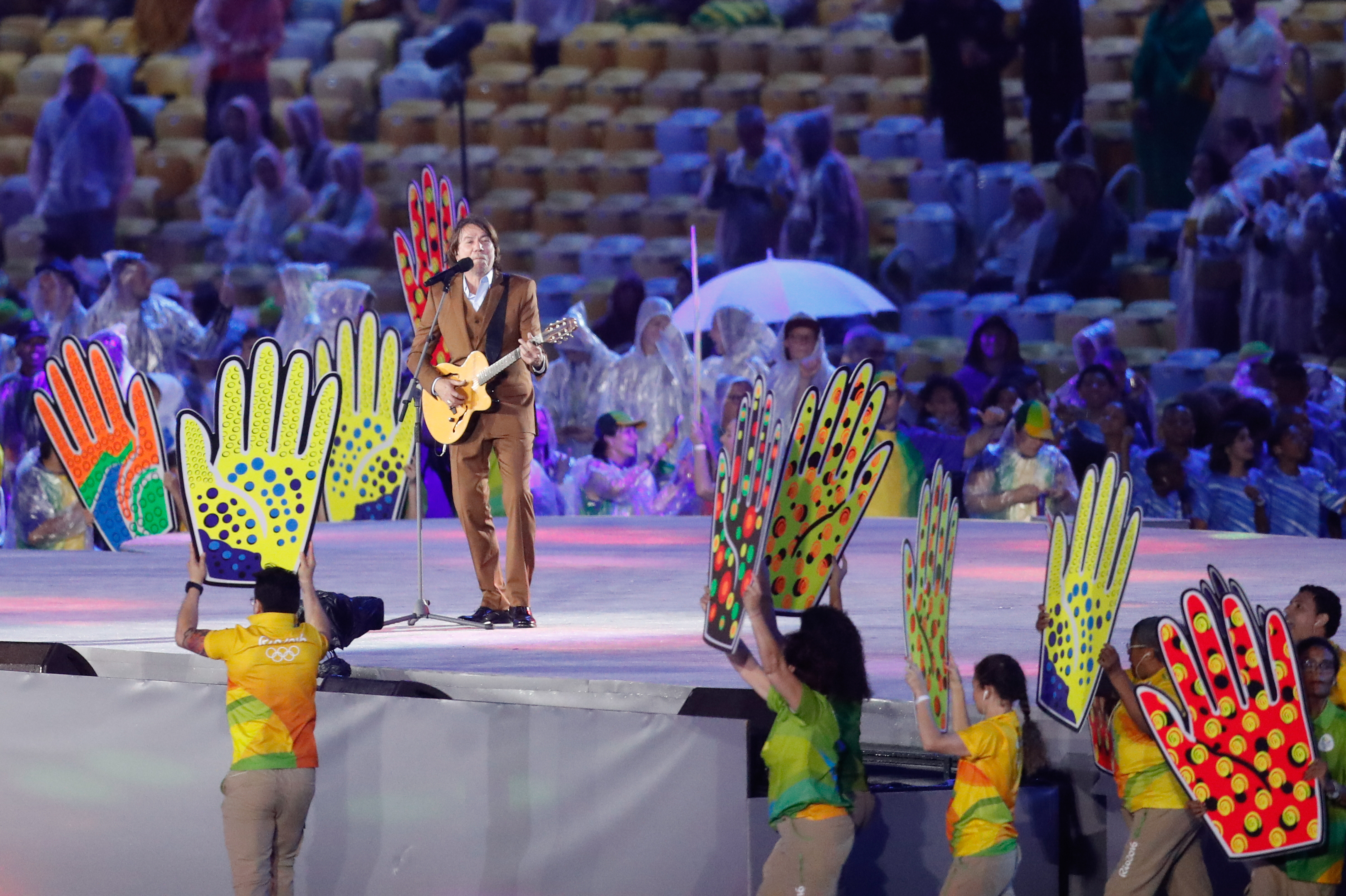 Rio de Janeiro - Cerimônia de encerramento dos Jogos Olímpicos Rio 2016, no Maracanã (Fernando Frazão/Agência Brasil)